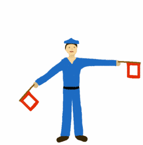 Letter M of the nautical semaphore flag signalling system Source: Martin Hawlisch (User:LosHawlos) My own drawing done in gimp First uploaded to de: in jun-2004